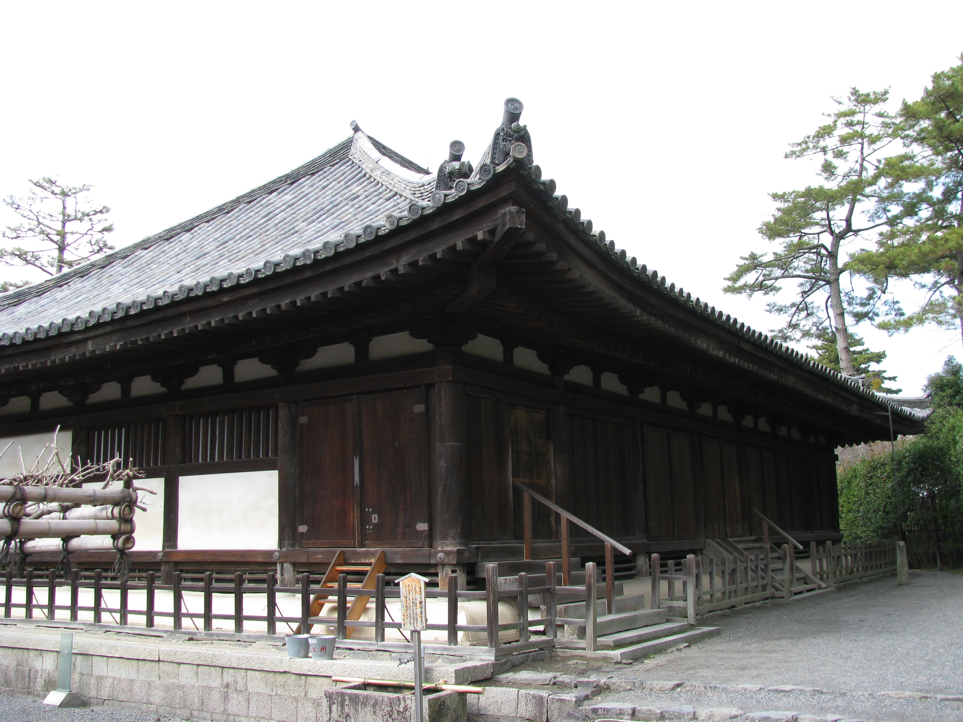 Avalokitesvara Hall in the Byodo-In temple in Uji, Japan